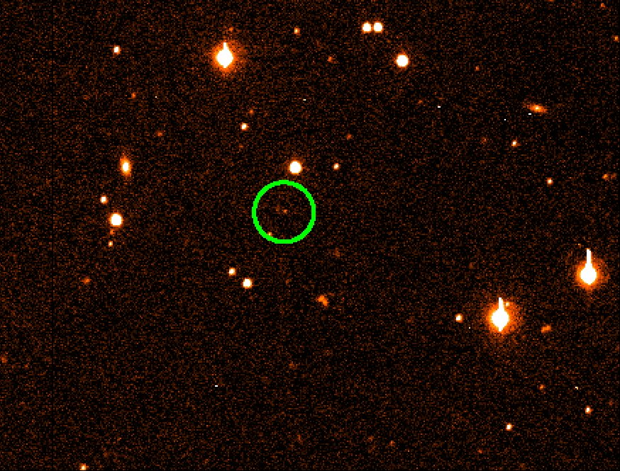 Sedna was discovered from an image dated 2003-11-14 at coordinates 03 15 10.09 +05 38 16.5. The 3 overexposed stars are apparent magnitude 13. The "bright star" near Sedna is apmag 14.9 and about the same magnitude as Pluto. (Wikisky image of this region) The picture shows an area of the sky equal to the area covered by a pinhead held at arm's length. Sedna is too faint to be seen by all but the most powerful amateur telescopes.